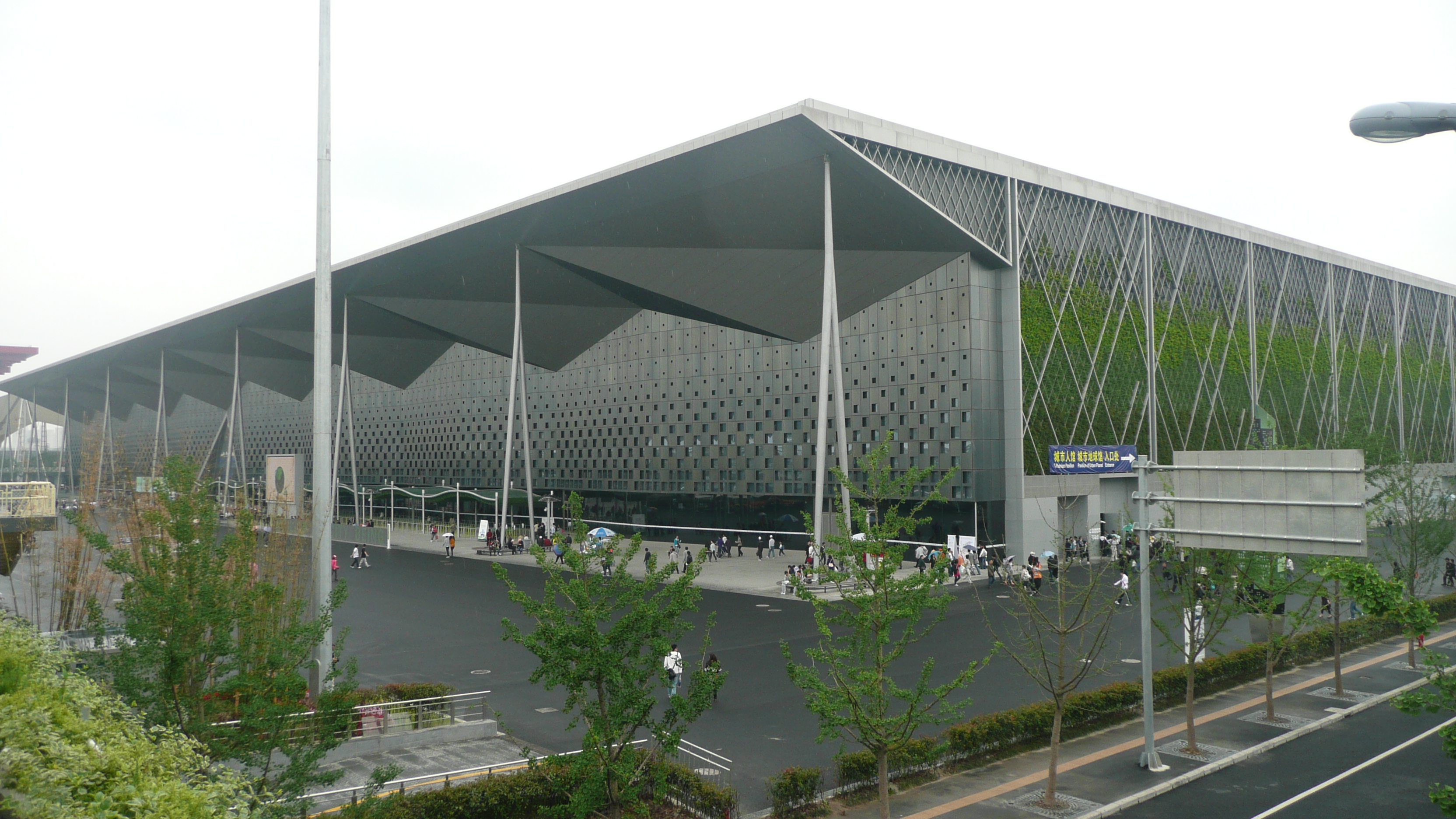 Expo 2010 Shanghai, Theme Pavilions